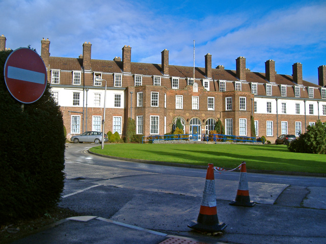 Castle Hill Hospital, Cottingham, East Riding of Yorkshire, England. One of the older, possibly original, buildings on this massive site, which is currently (2007) undergoing significant further expansion.